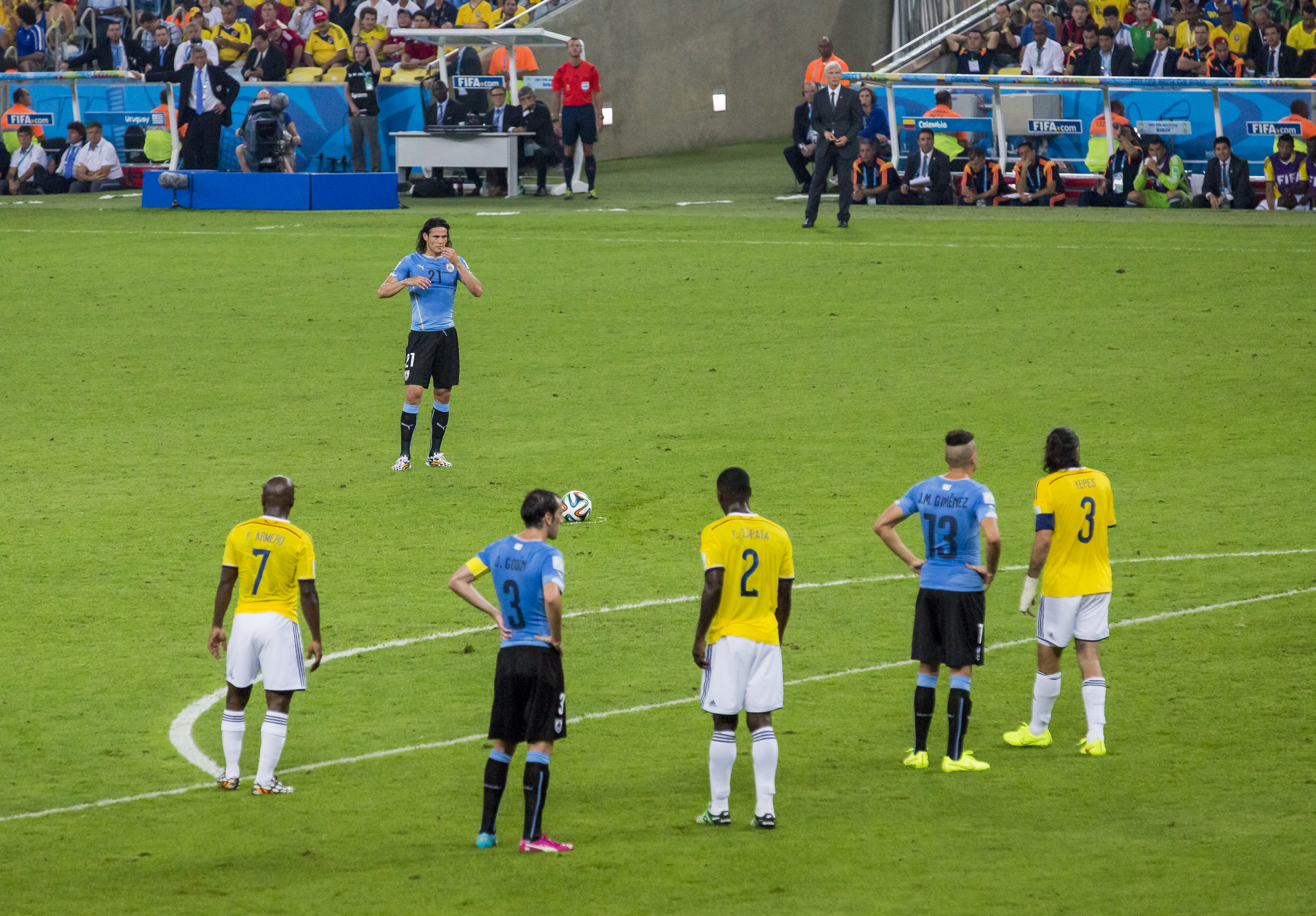 edinvson cavani rio de janeiro 2014 world cup uruguay national football team colombia national football team